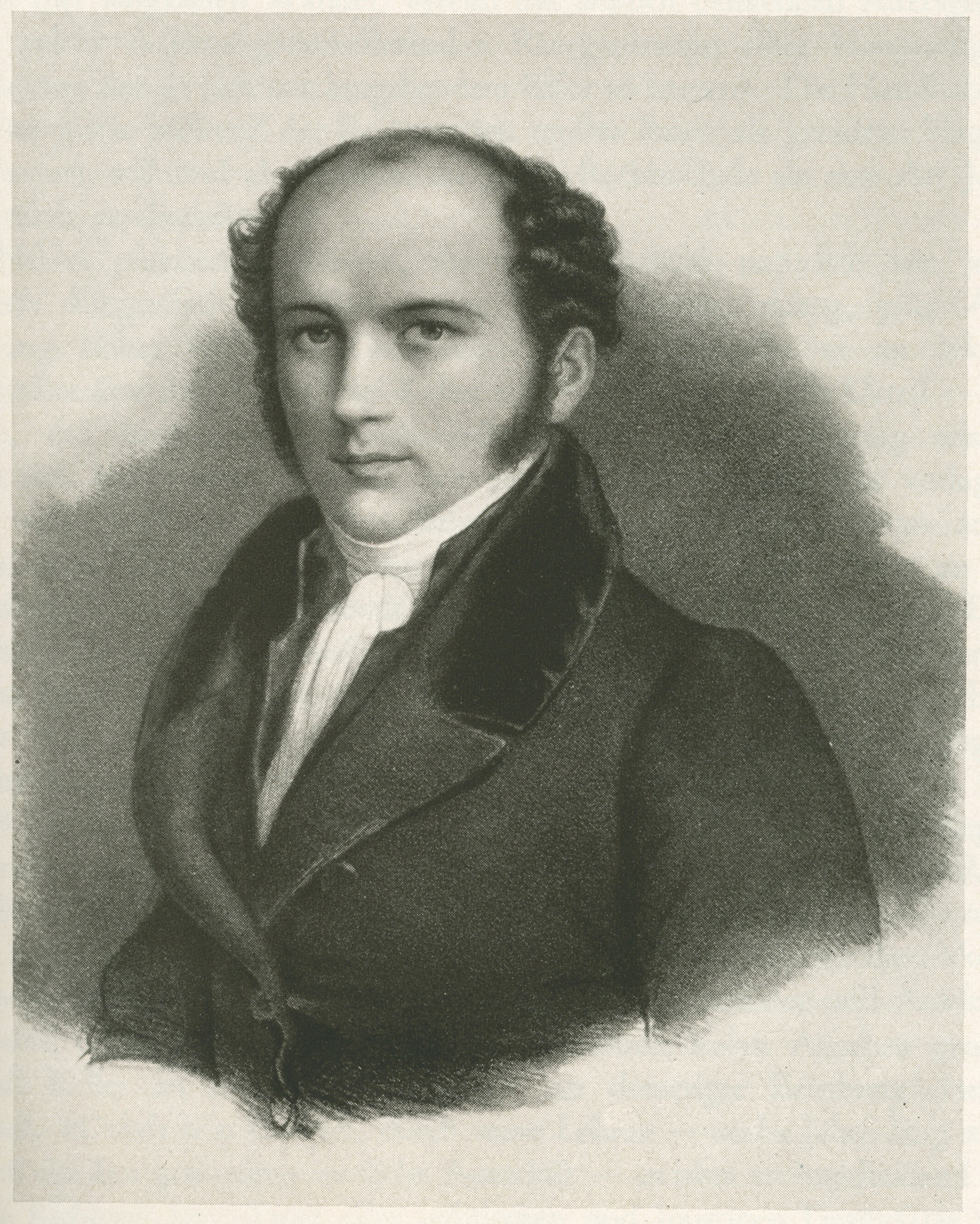 Portrait of Ludwig Keller (1799–1860)